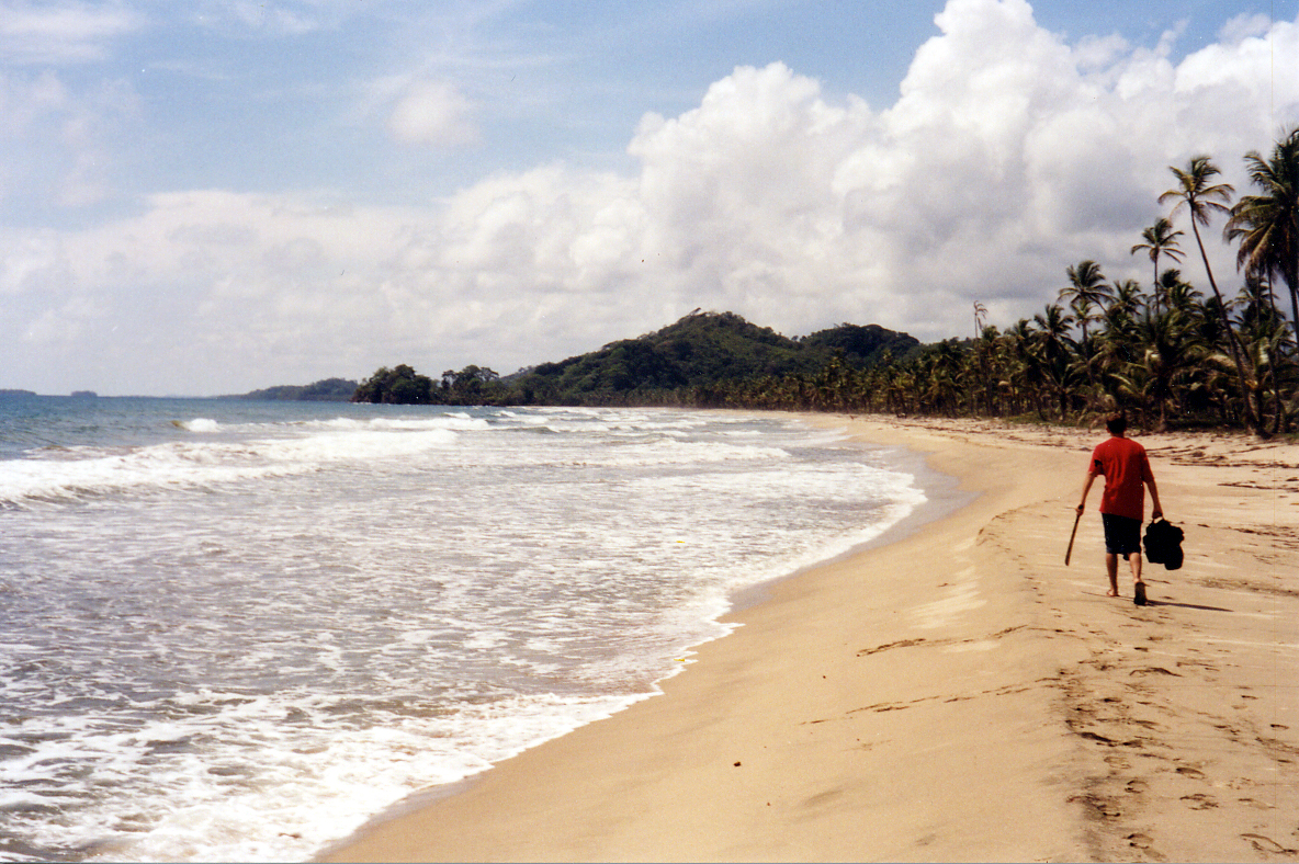 Beach in Kuna Yala, Panama.